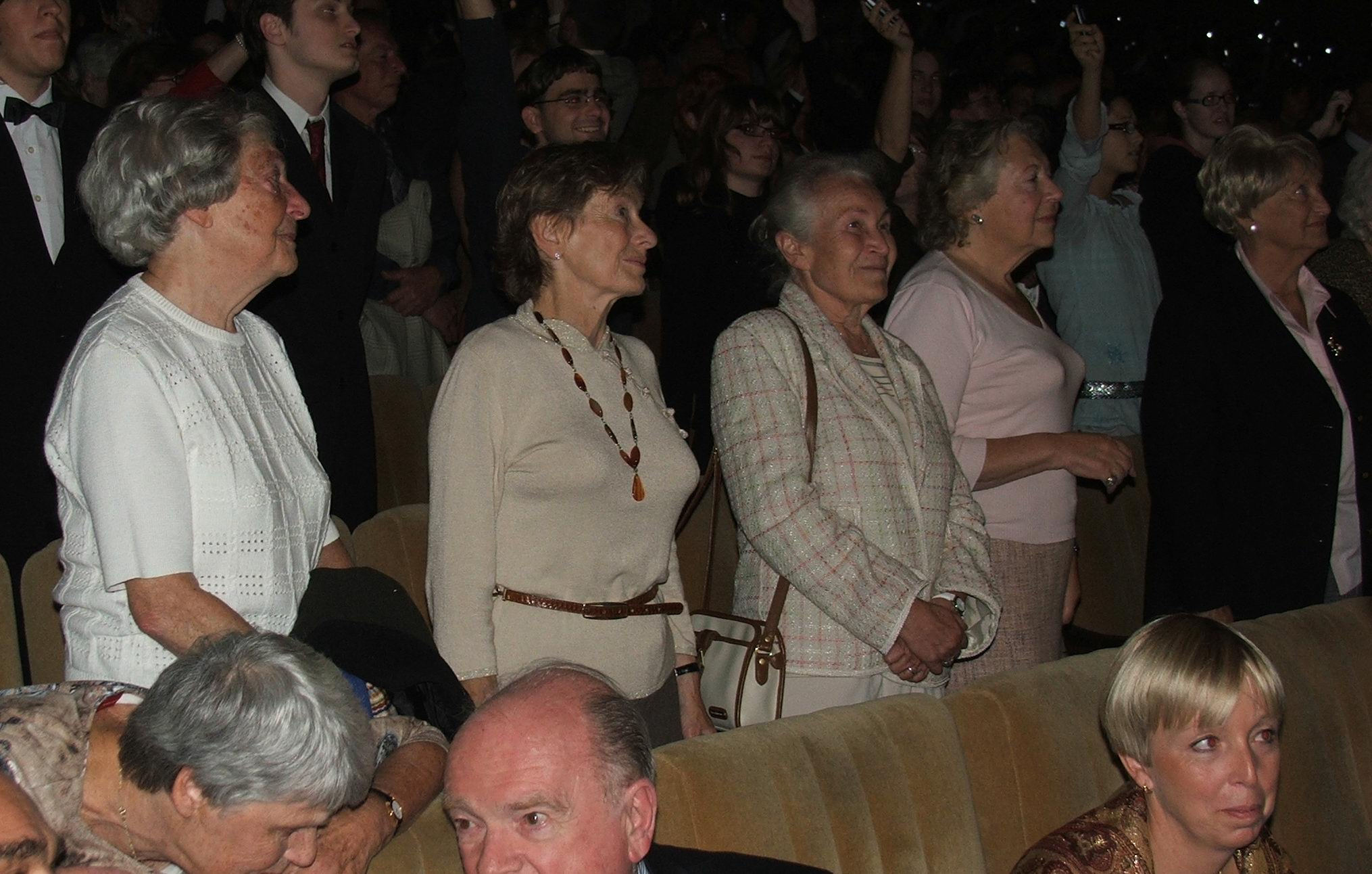 Children rescued by Sir Nicholas Winton today. Winton (b. 1909) organized the rescue of about 669 mostly Jewish Czech children was visiting Prague in October 2007.